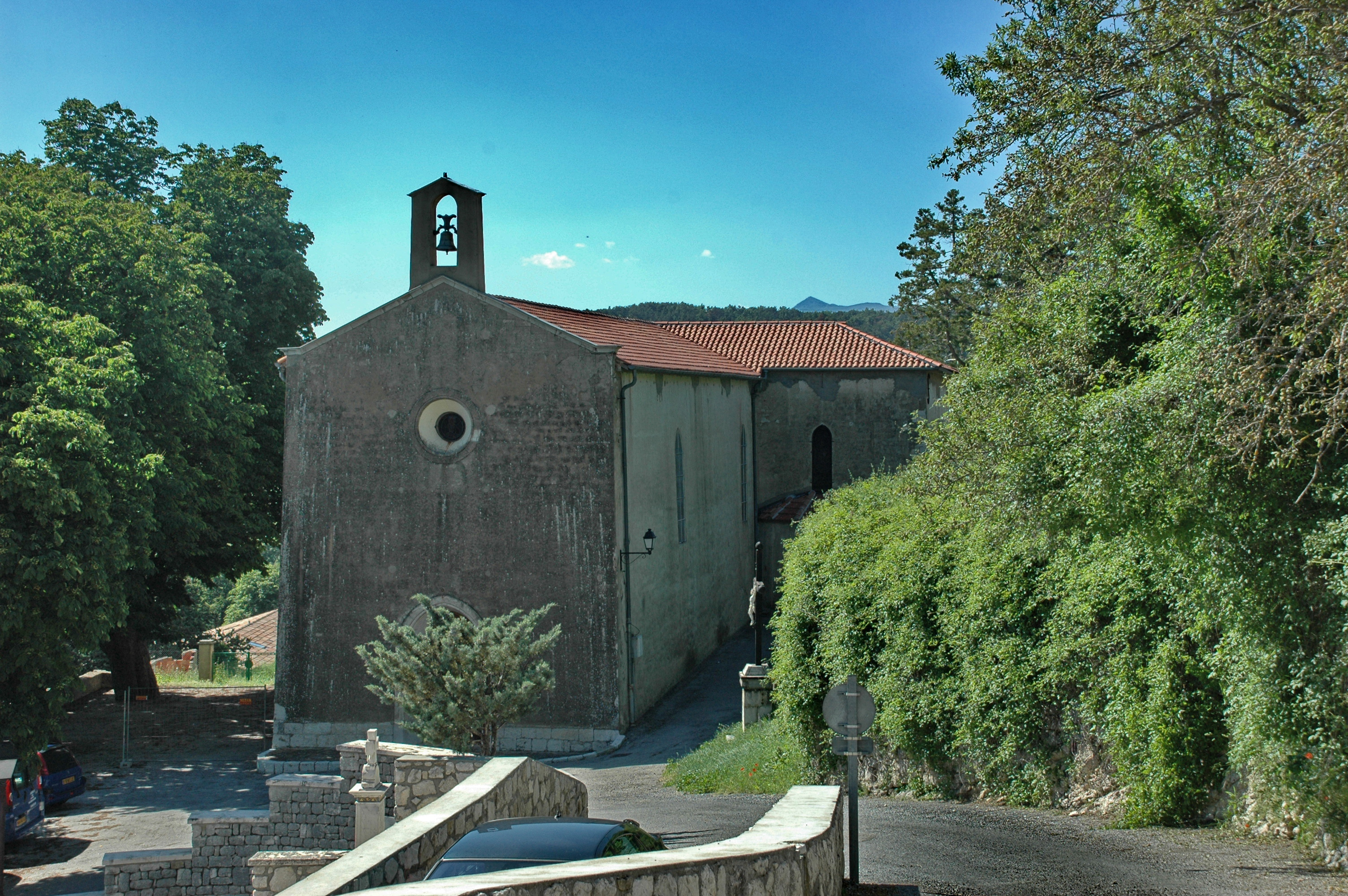 Var, Comps, Ste Philomene Churh